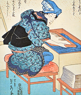 Papermaker, from the series Collection of Fashionable Artisans